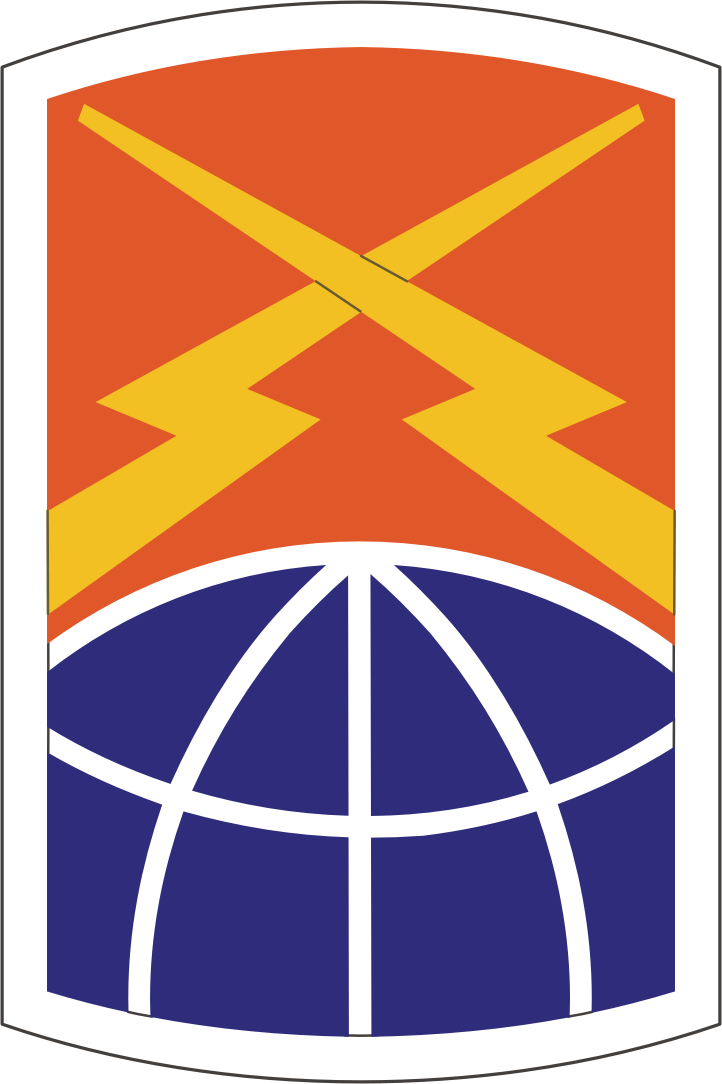 160th Signal Brigade Unit Patch